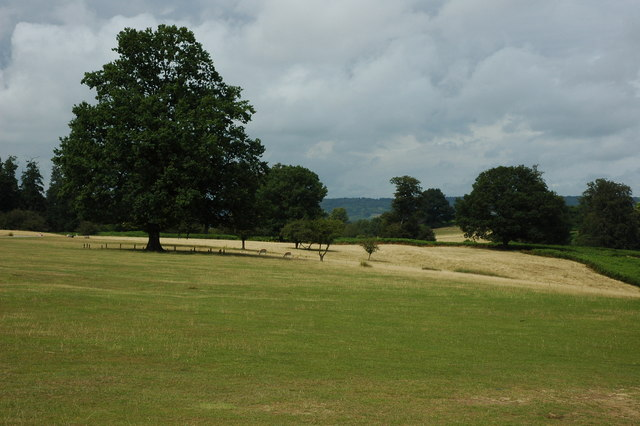 Parkland at Knole Deer grazing in Knole park.